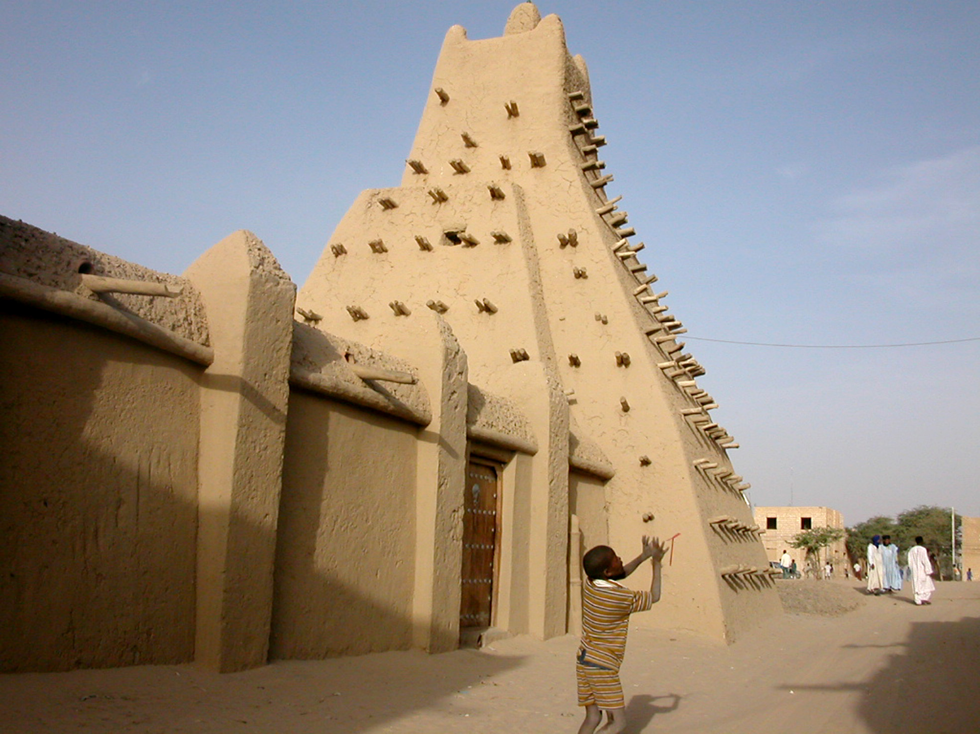 Timbuktu (Mali)